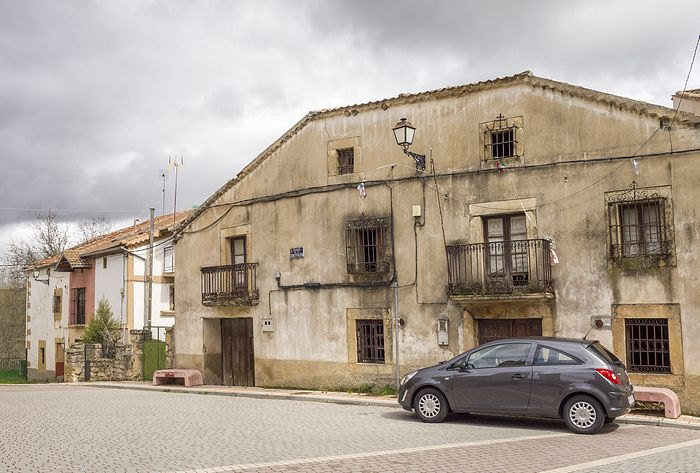 Casa típica segoviana con dos vertientes sin vértice